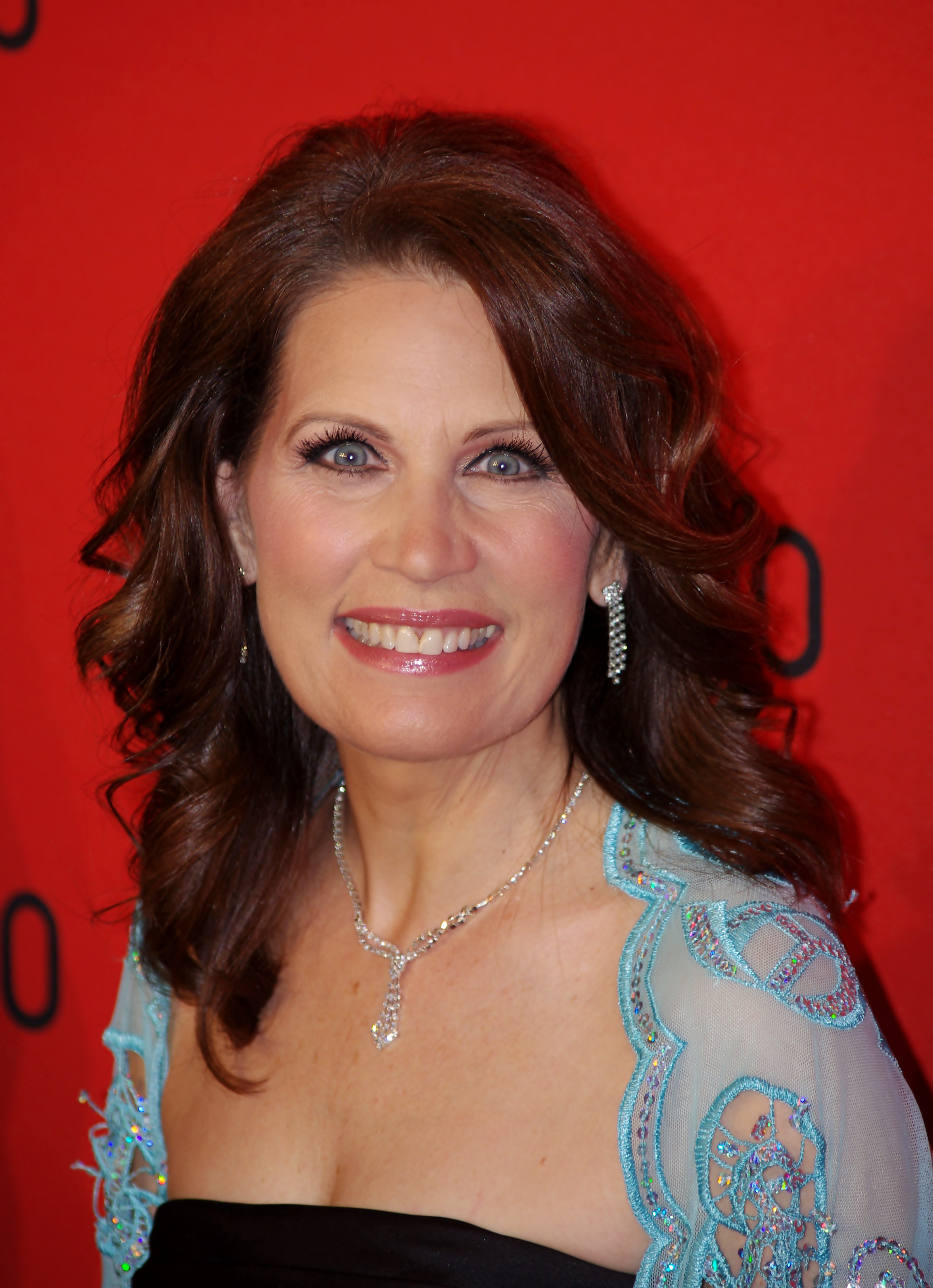 Michele Bachmann at the 2011 Time 100 gala.